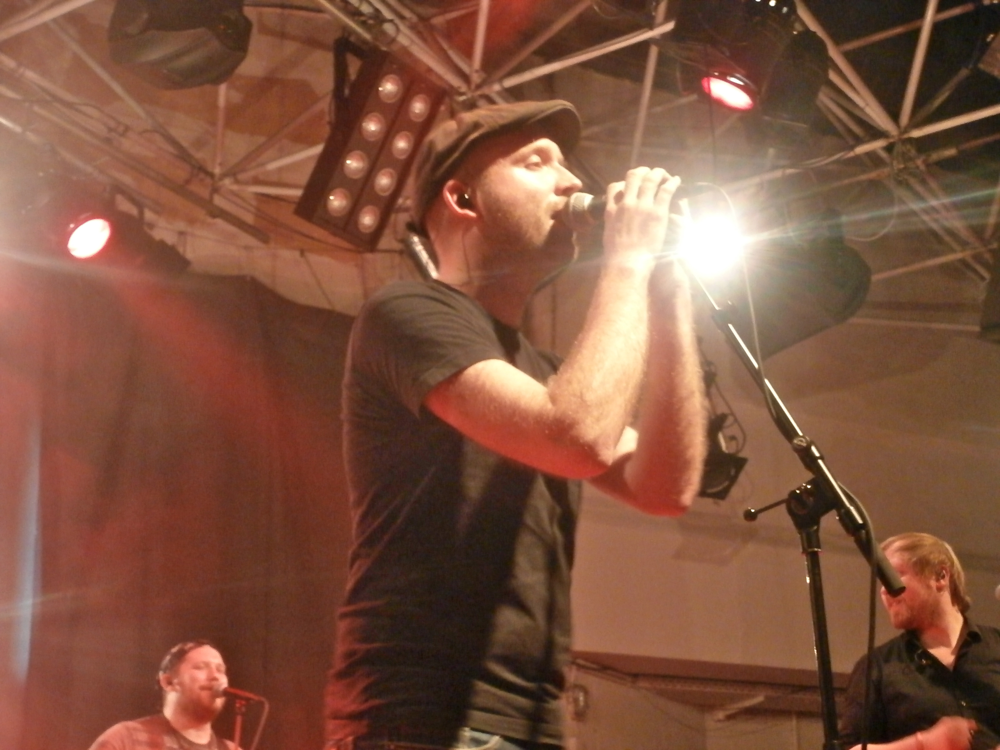 Marc-Uwe Kling at his concert in Düsseldorf, Germany.